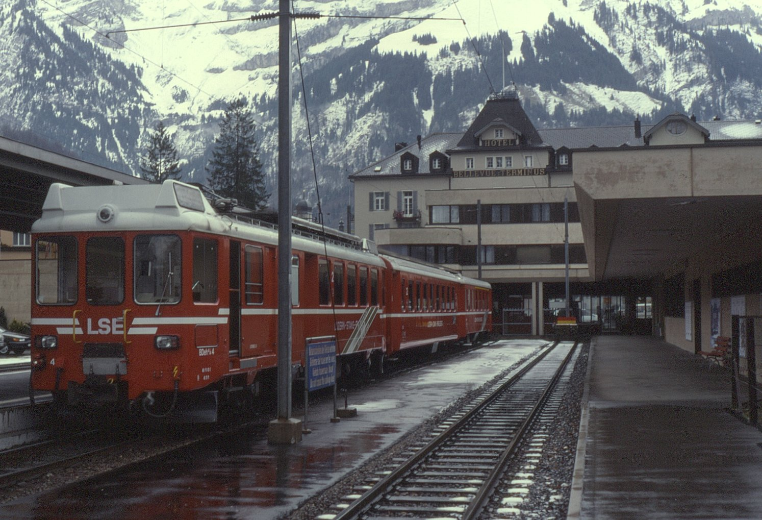 Metre gauge, rack operated system which went from Luzern to here, Engelberg. LSE (Luzern Stans Engelberg) was the operator until 2005. As with so many other Swiss systems merging took place in this case with the SBB Brünigbahn to form the Zentralbahn. Seen here is BDeh4/4 no. 4 on train 119, 10:45 Engelberg to Luzern taken during a visit on 14 November 1998.